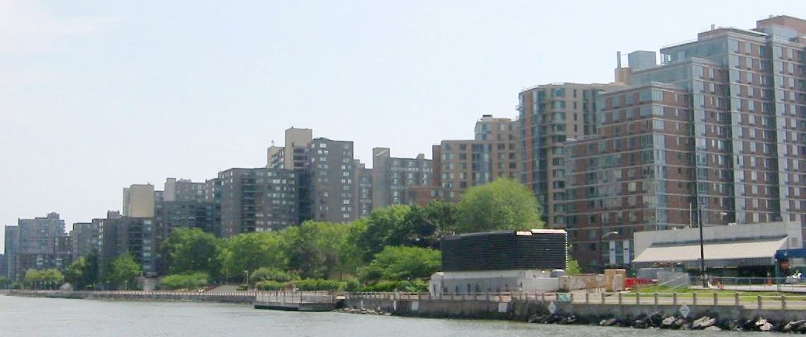 Usable with attribution and link to